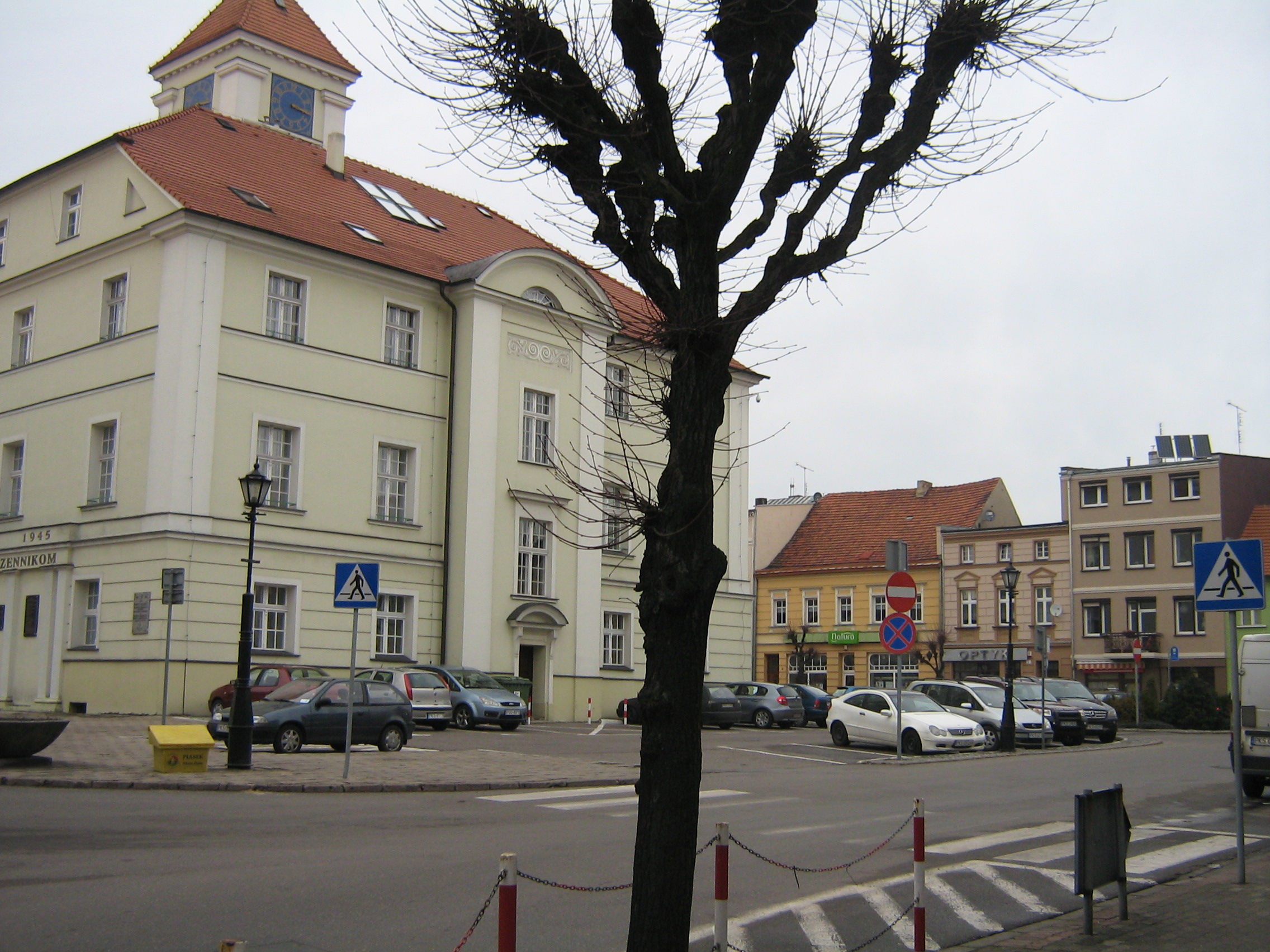 Market square in Kościan, Poland